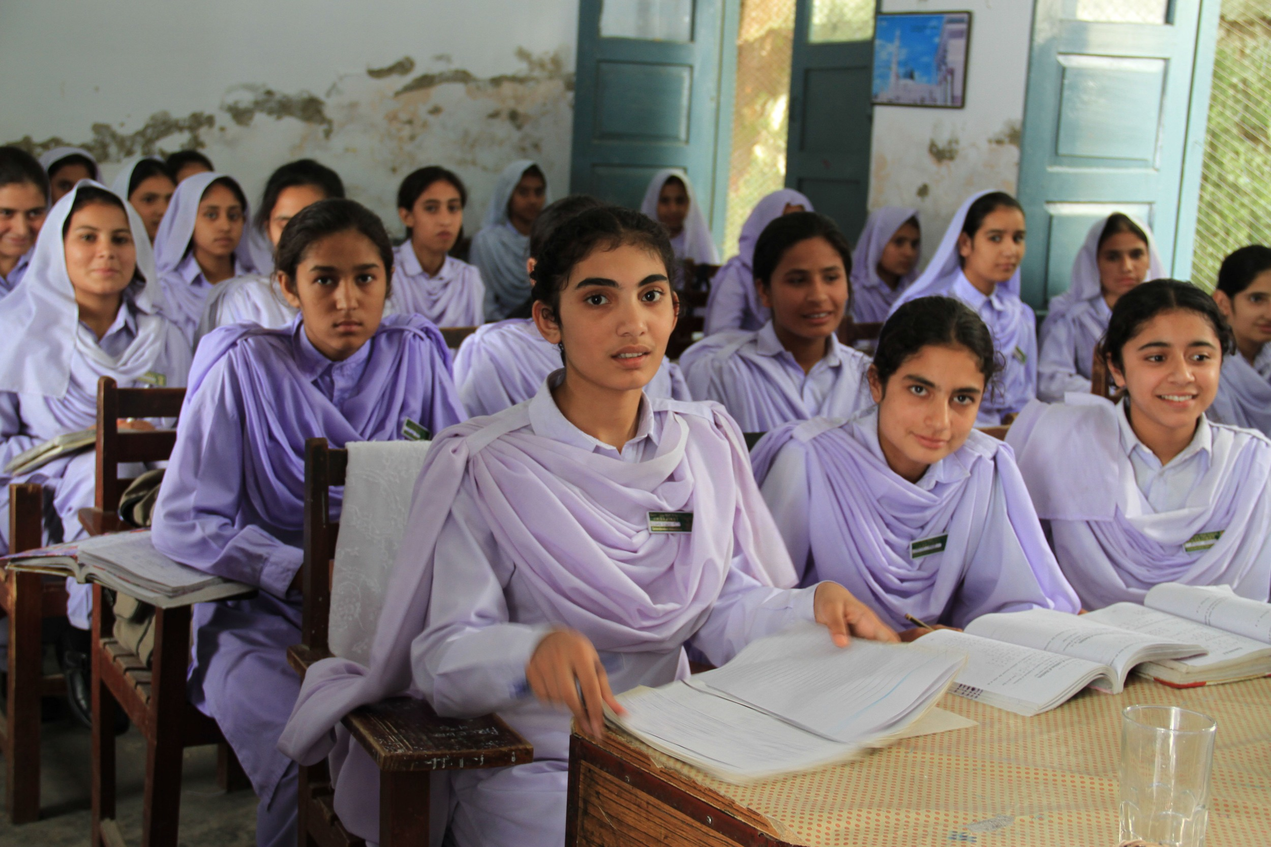 The UK government is committed to getting two million more girls into school in Pakistan by 2015. UK aid has already helped more than 590,000 girls in Khyber Pakhtunkhwa stay in school over the last few years by giving them small cash stipends. Each girl receives 200 rupees (about £1.50) a month, and a set of free textbooks each year to help them get an education. With an average family size of up to seven or eight and a third of the population living on less than $1 a day, these small stipends and free text books can make the difference between daughters being sent to school or having to drop out. To find out more, please visit: Photo: Vicki Francis/Department for International Development